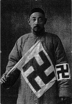 Red Swastika Society member with flag and armband